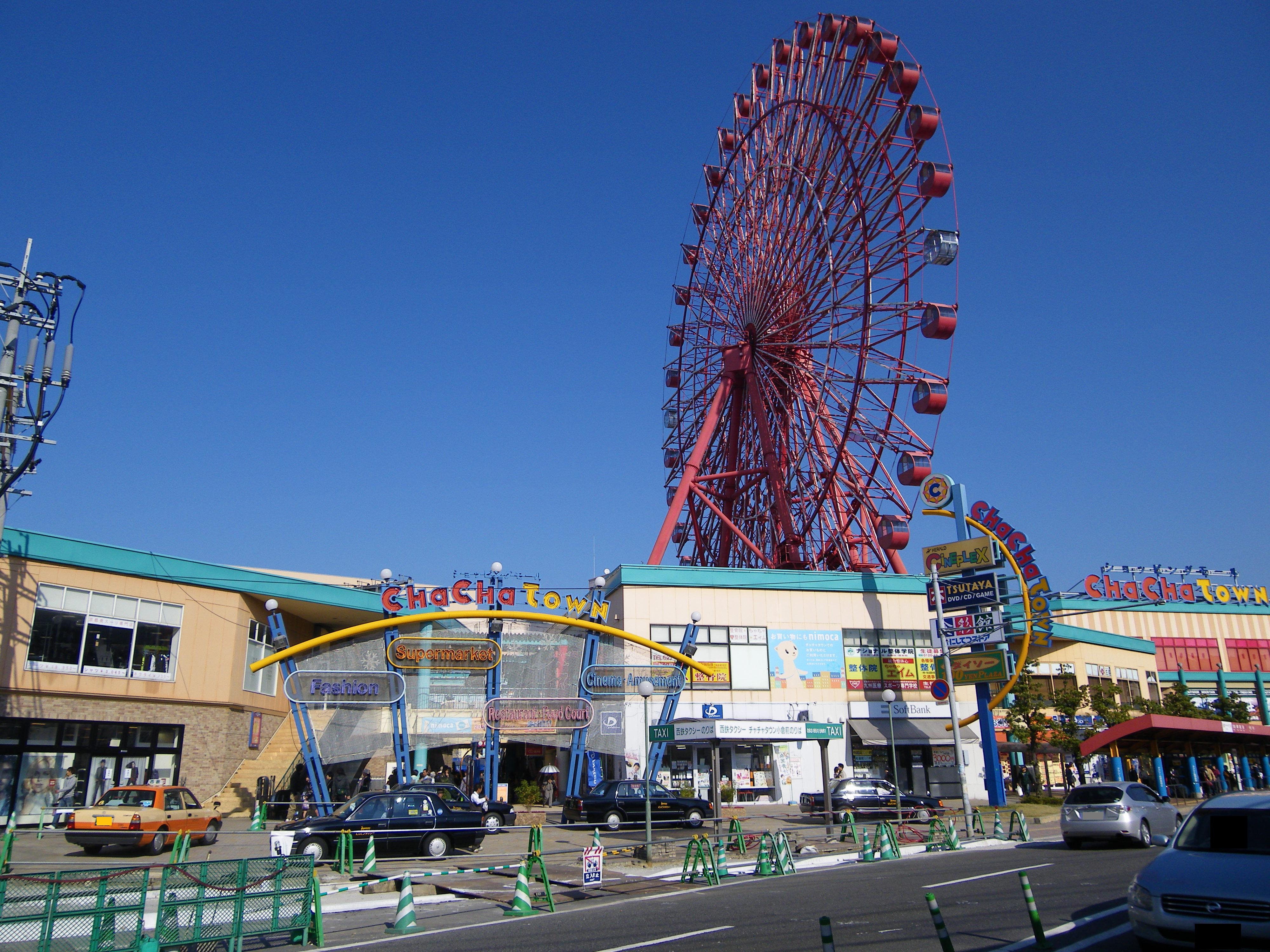 CHaCHa TOWN KOKURA, Kitakyushu